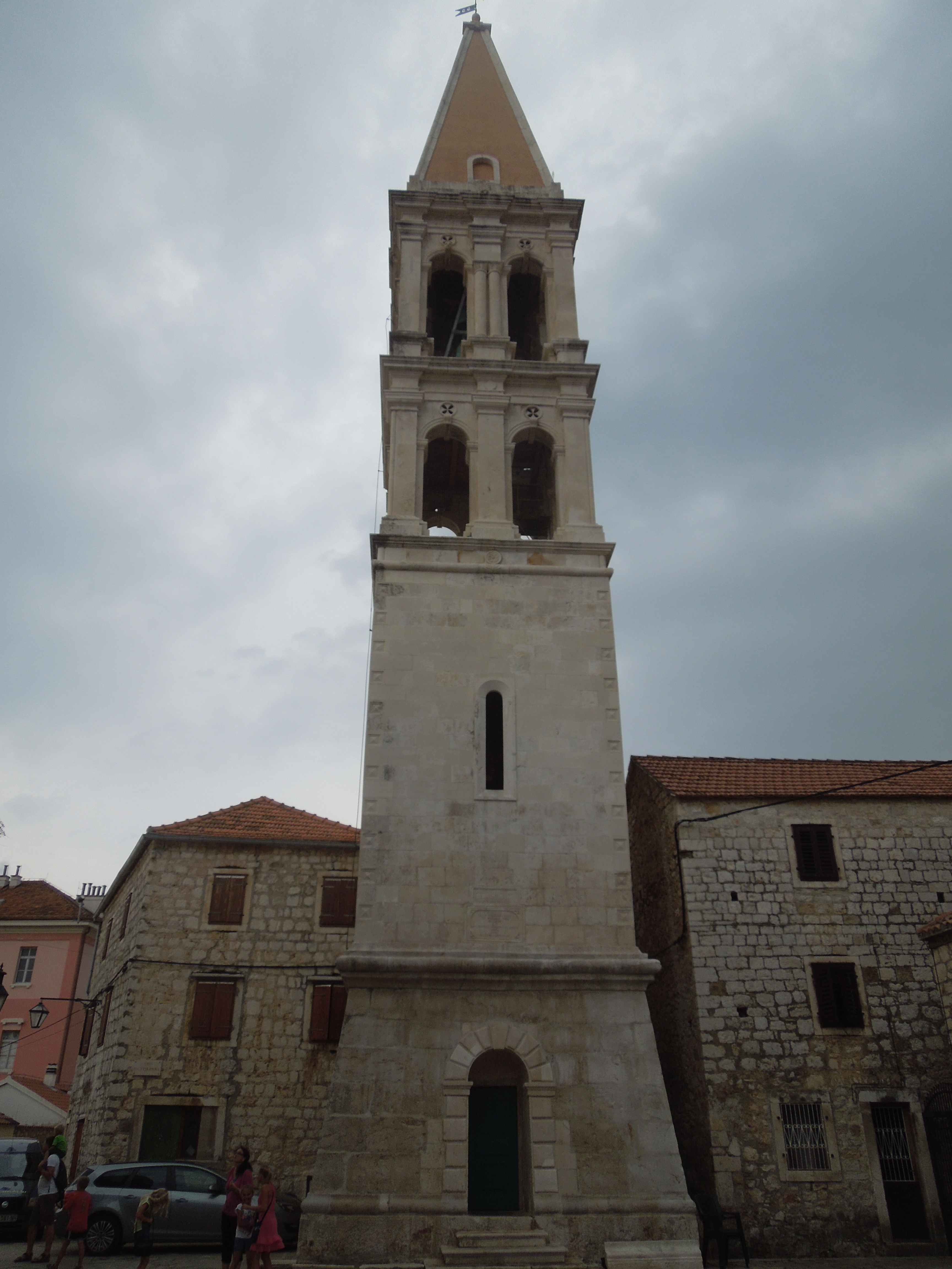 The bell tower of the church of St. Stephen in Stari Grad on the island of Hvar, Croatia